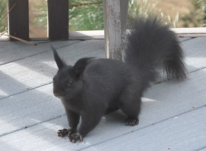 I hereby affirm that I, Tom Goldberg am the creator and/or sole owner of the exclusive copyright of Coloabertsquirrel.jpg, photographed near Evergreen Colorado. I agree to publish that work under the free license "Creative Commons Attribution-ShareAlike 3.0" (unported) and GNU Free Documentation License (unversioned, with no invariant sections, front-cover texts, or back-cover texts). I acknowledge that by doing so I grant anyone the right to use the work in a commercial product or otherwise, and to modify it according to their needs, provided that they abide by the terms of the license and any other applicable laws. I am aware that I always retain copyright of my work, and retain the right to be attributed in accordance with the license chosen. Modifications others make to the work will not be claimed to have been made by me. I acknowledge that I cannot withdraw this agreement, and that the content may or may not be kept permanently on a Wikimedia project. Tom Goldberg, Wikipedia login ferdfarnsworth Creator and copyright holder of the aforementioned image September 4, 2011